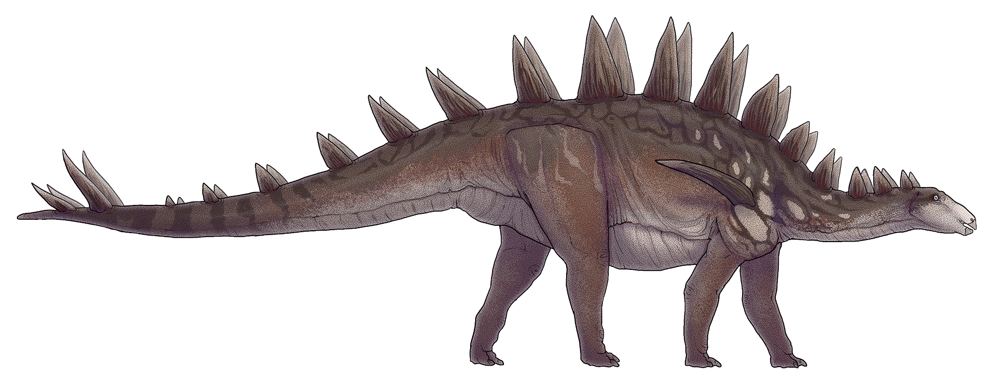 Tuojiangosaurus multispinus life restoration.